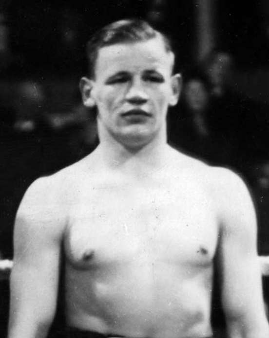 Nils Ramm, 1924 Olympics